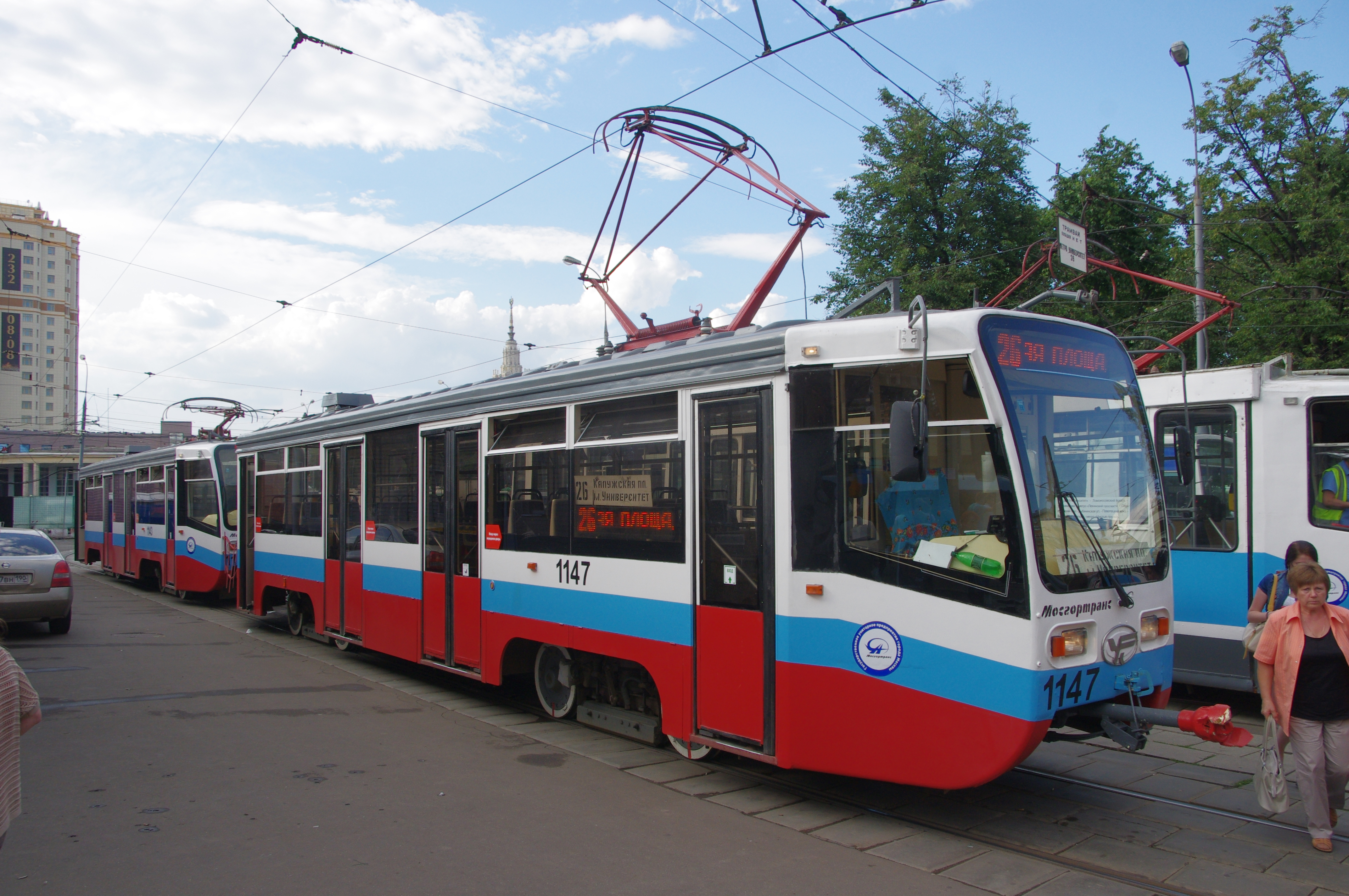 Moscow tram 71-619KT 1147+1142, new livery for 1 tram depot.